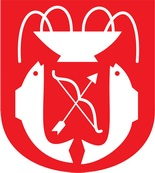 Coat of arms of Sliač, Slovakia